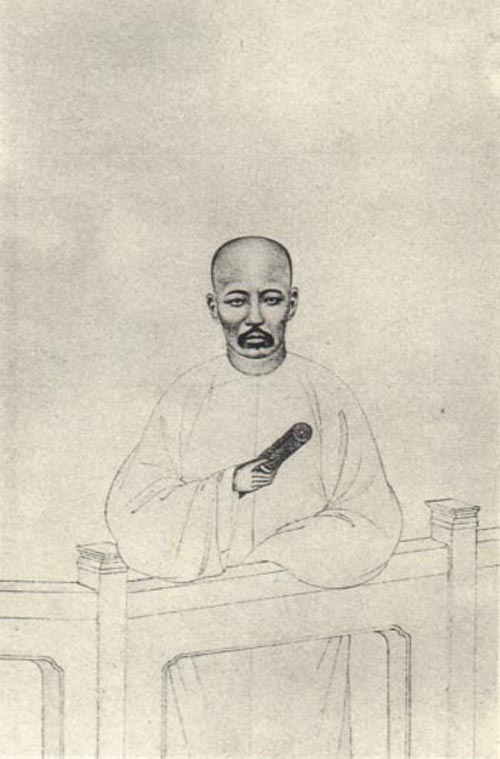 SHENG Yi, scholar of the Qing Dynasty.